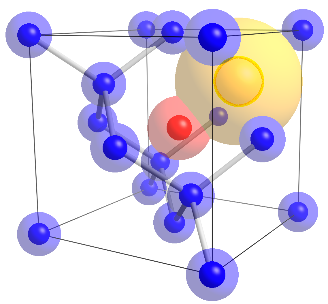 Figure 2: View A of Nitrogen-vacancy Center: the blue atoms represent Carbon atoms, red atom represents Nitrogen atom substituting for a Carbon atom, and yellow atom represents a lattice vacancy